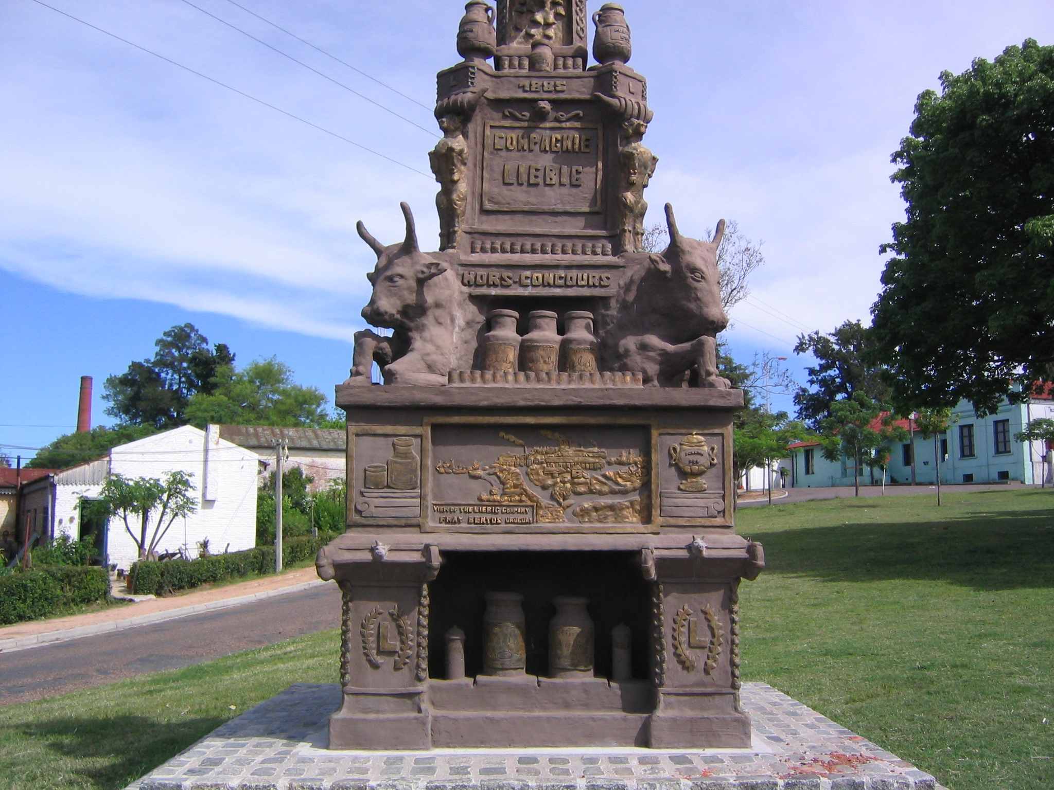 Fray Bentos - capital of pies! They don't make 'em here anymore, but they used to have a factory in the 1940s where 2000 cattle used to be slaughtered each day. There is only a museum nowadays, the pies are produced elsewhere now, but there were a few interesting relics - such as this statue in the middle of town.